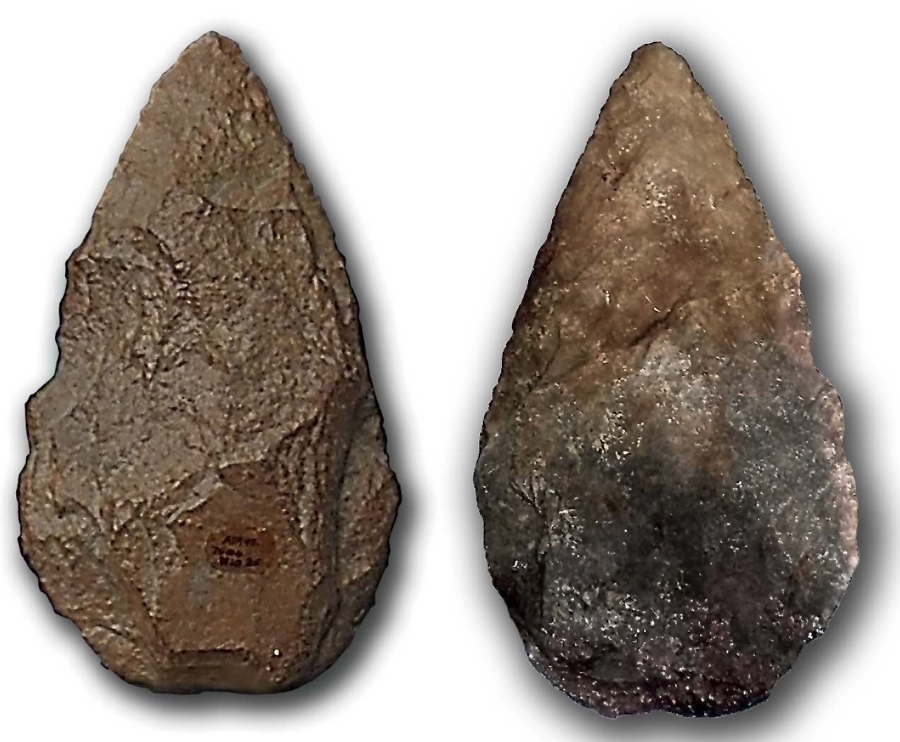 Handaxe in quartzite, its comes from the bed TG-10 of « Galería» in Atapuerca (Burgos, Spain) and it is dated circa 350,000 years